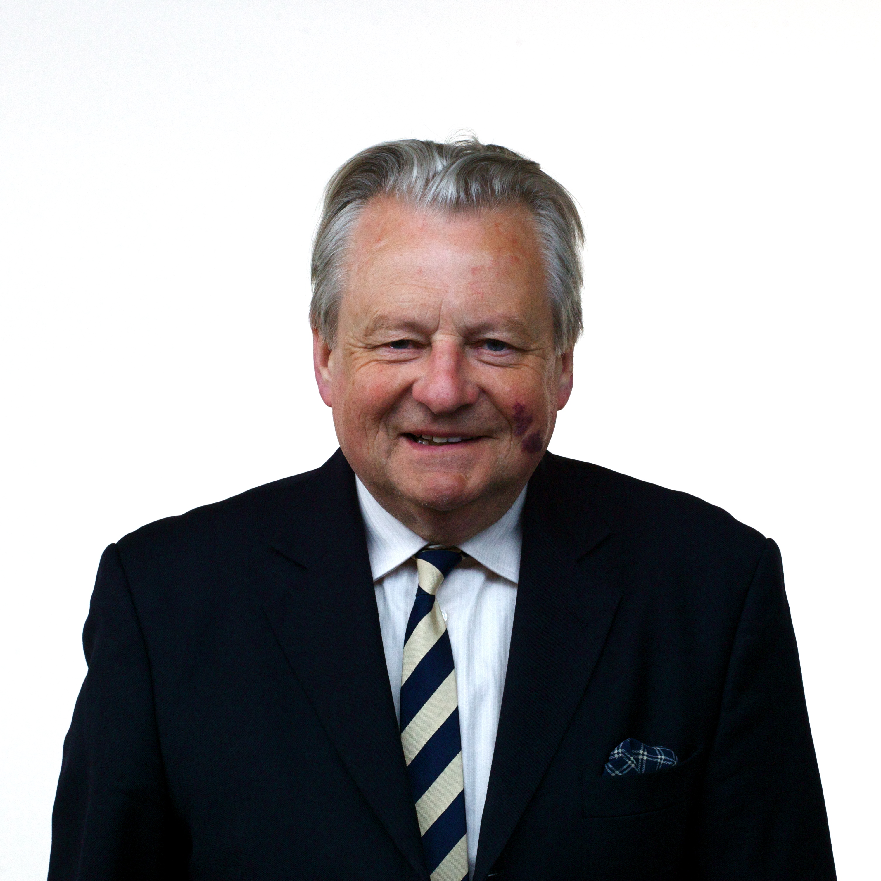 Dafydd Elis-Thomas AM, member of the National Assembly for Wales.